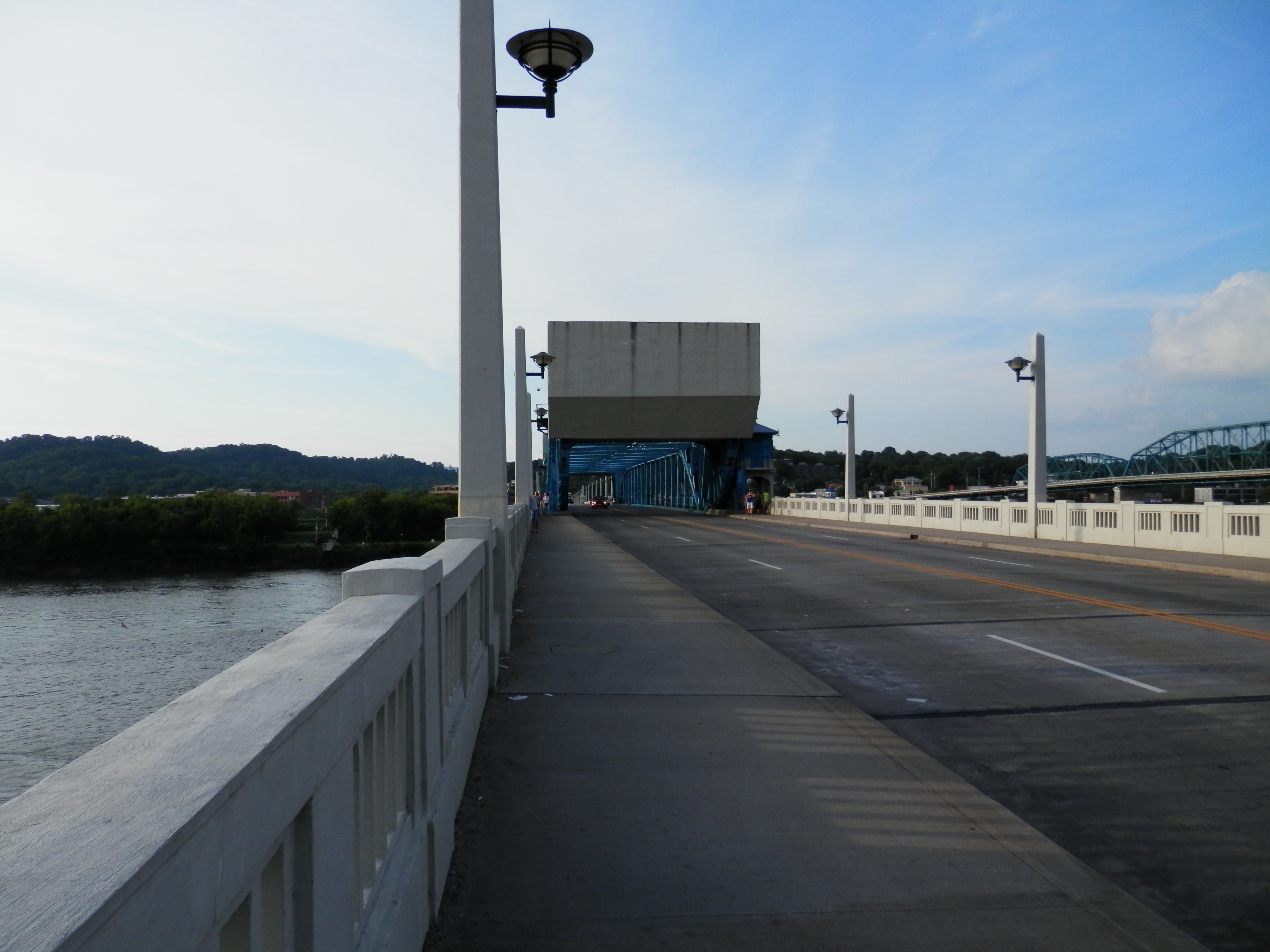 Market Street Bridge crossing the Tennessee River